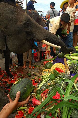 Elephant breakfast during annual Elephant Round-up in Surin (Thailand).